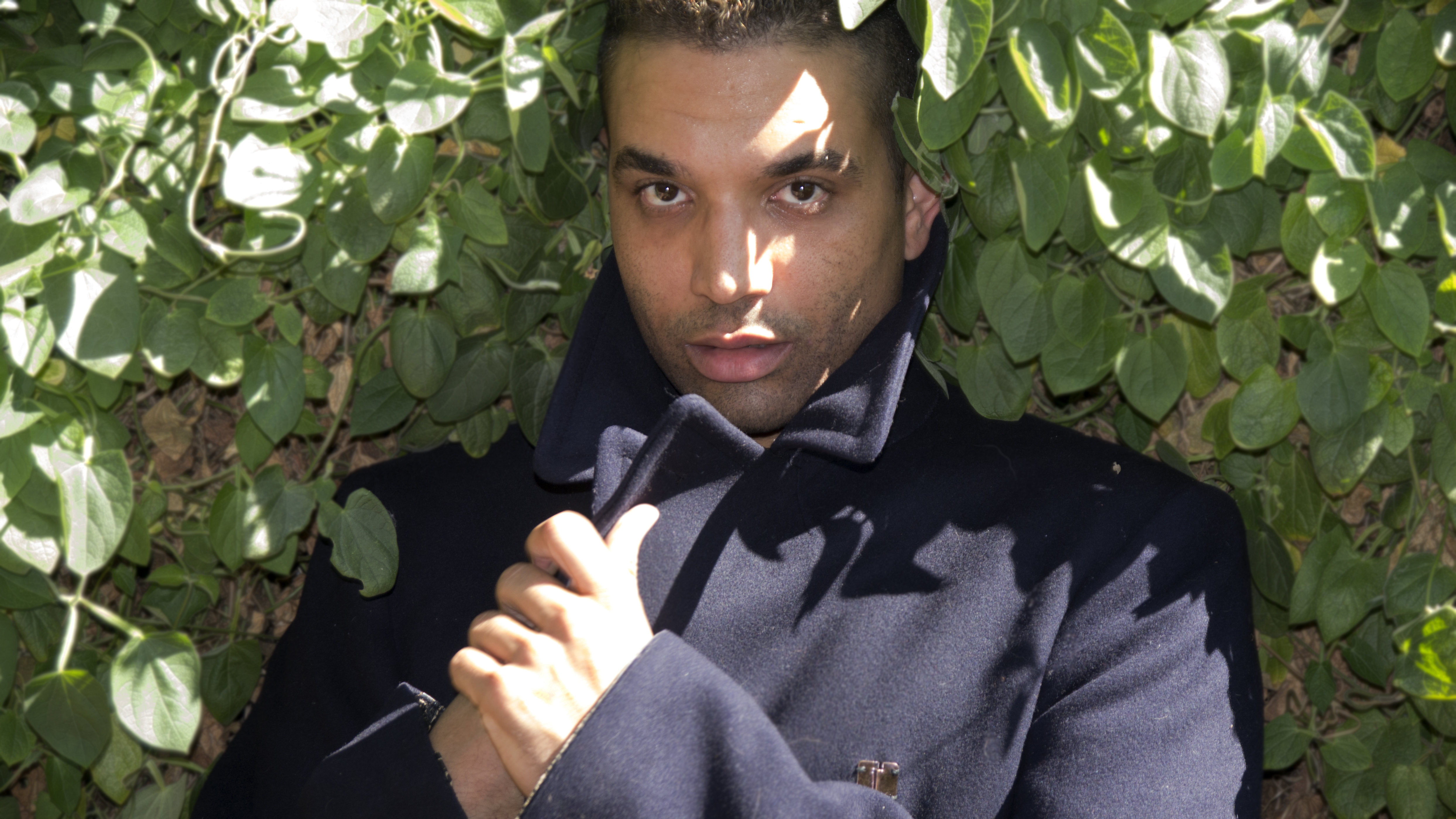 Tobias Daniels at his home in Los Angeles.